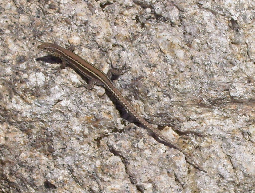 Podarcis bocagei (female) taken in Santiago de Compostela, Spain